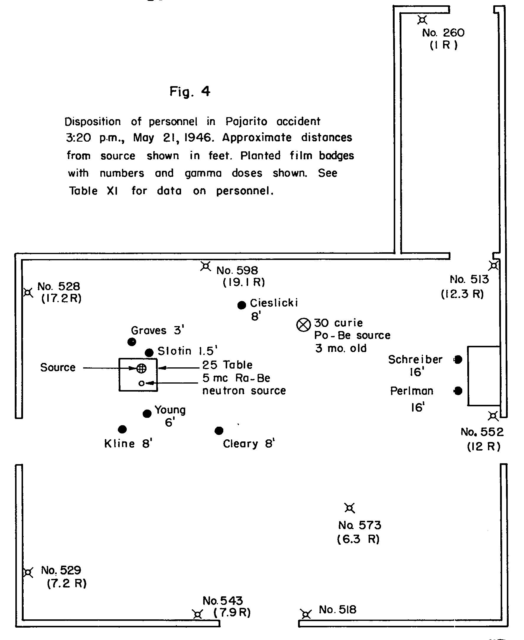 A sketch of Louis Slotin’s criticality accident (1946-05-21) used by doctors to determine exposure of those in the room at the time.